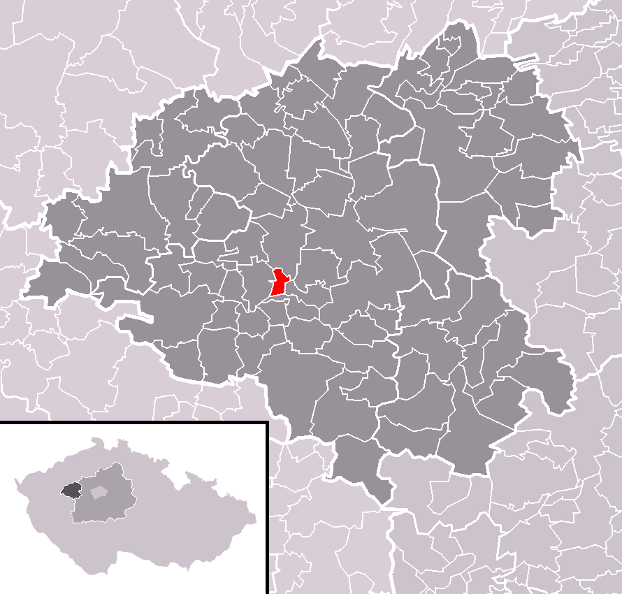 Location of Příčina municipality within Rakovník District and (identical) administrative area of Rakovník as a Municipality with Extended Competence.